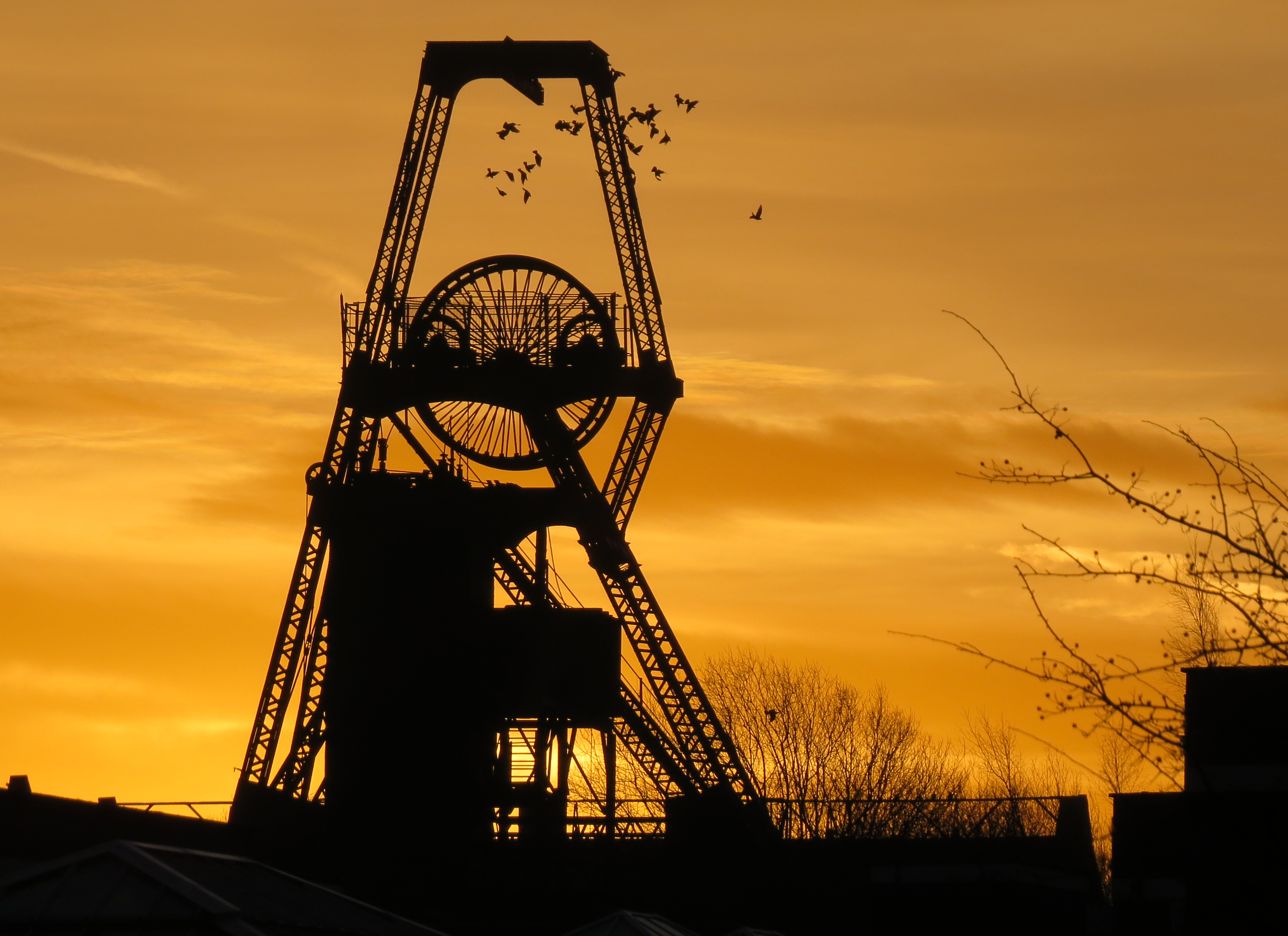 The Institute Winding Tower at Chatterley Whitfield Colliery